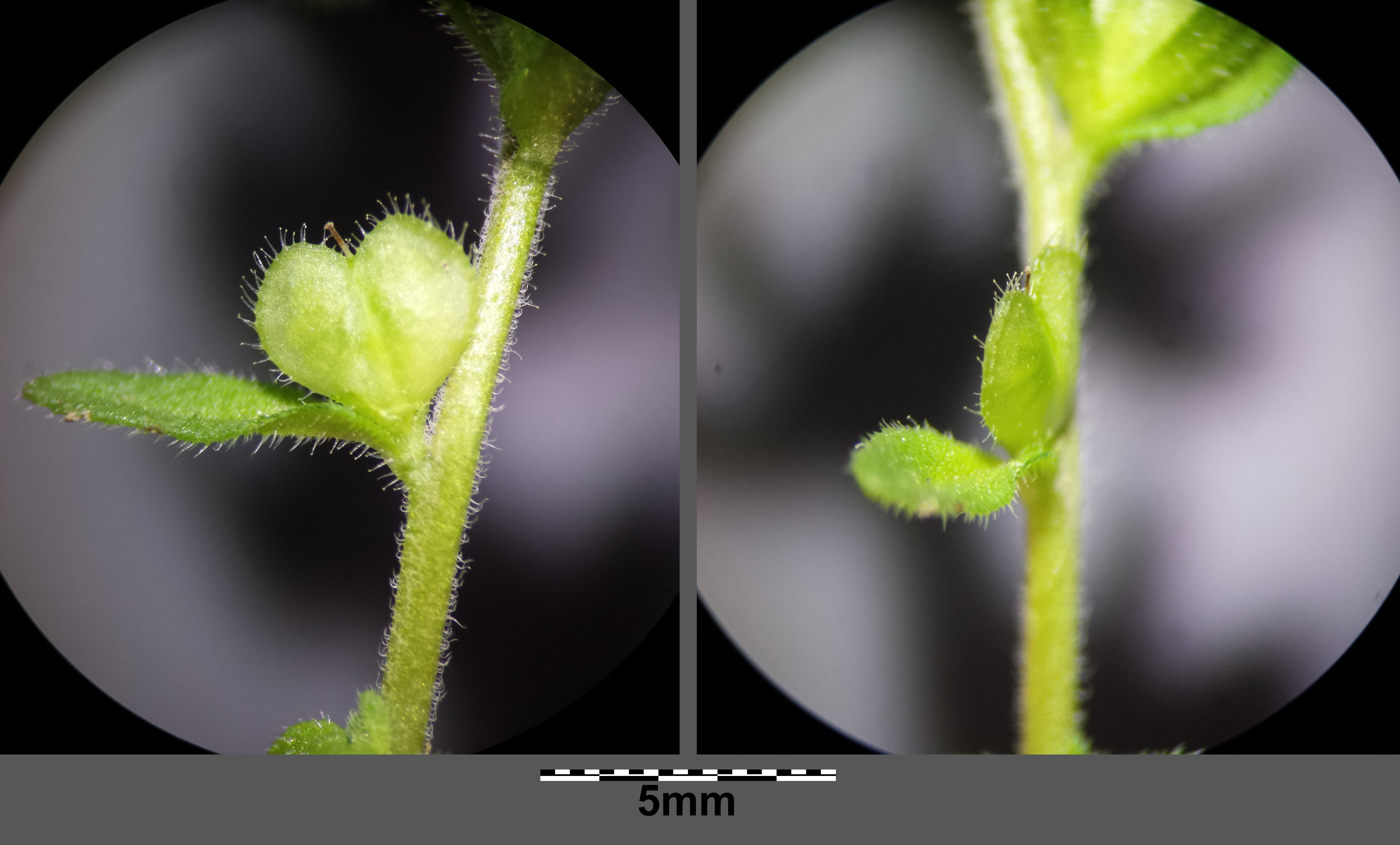 Fruit (sepals removed) Taxonym: Veronica arvensis ss Fischer et al. EfÖLS 2008 ISBN 978-3-85474-187-9 Location: near Niederhollabrunn, district Korneuburg, Lower Austria - ca. 350 m a.s.l. Habitat: wineyard